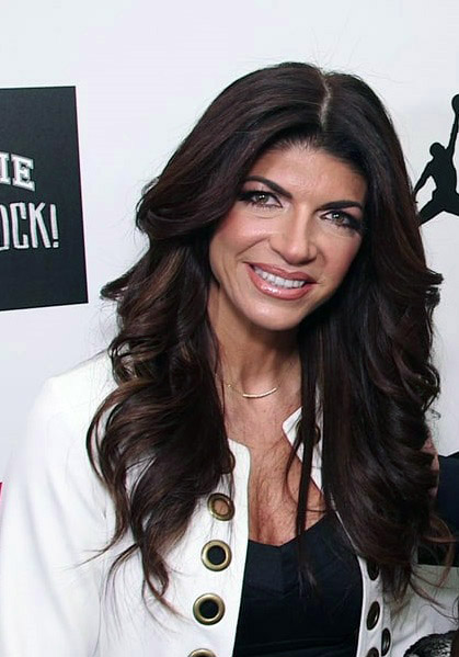 Teresa Giudice from Bravo's "The Real Housewives of New Jersey" joins Arthur Kade of Behind The Velvet Rope TV at the Kids Rock! Show during New York Fashion Week.